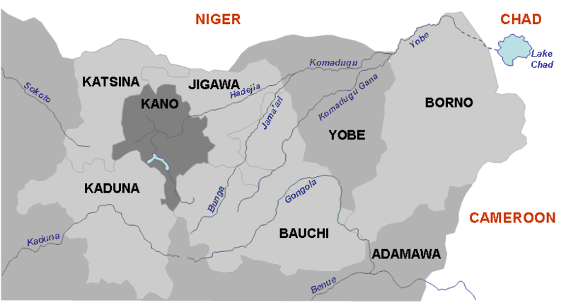 Sketch map of states and rivers in northeast Nigeria — Africa.